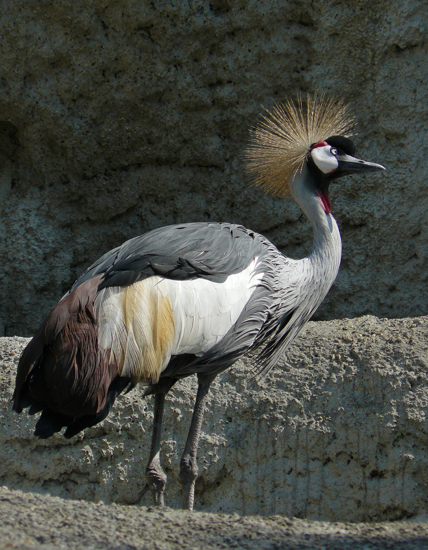 East African grey crowned crane. Image was taken in the Zoo Budapest